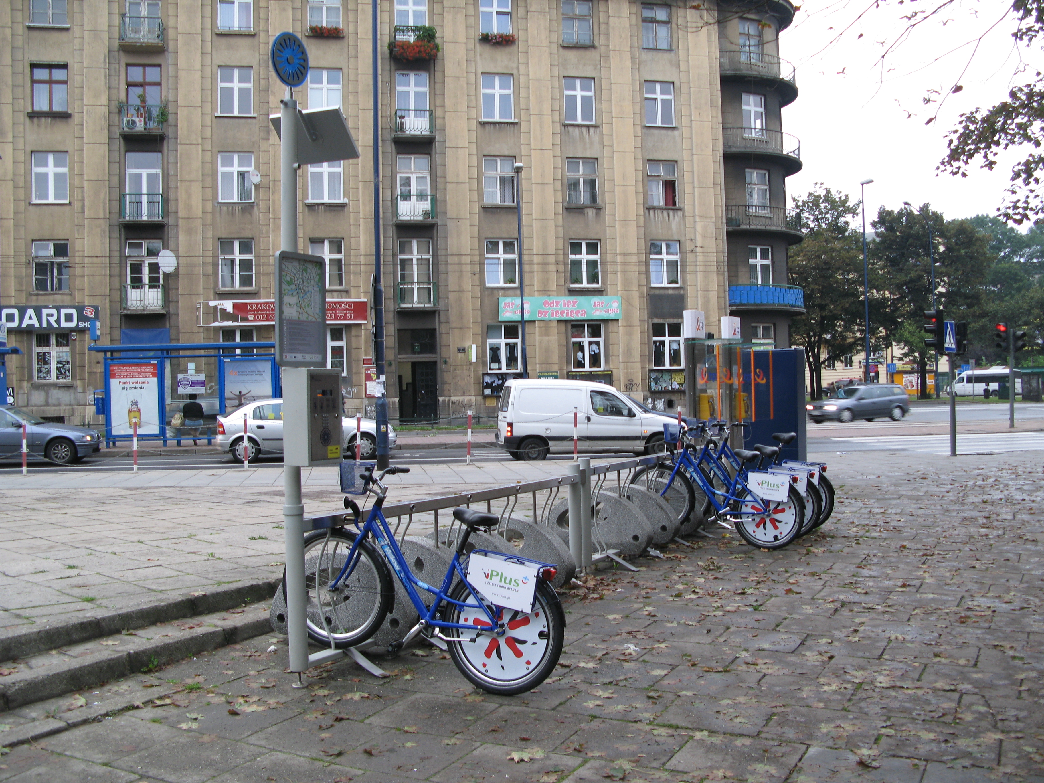 Station of public bicycle sharing system in Cracow.